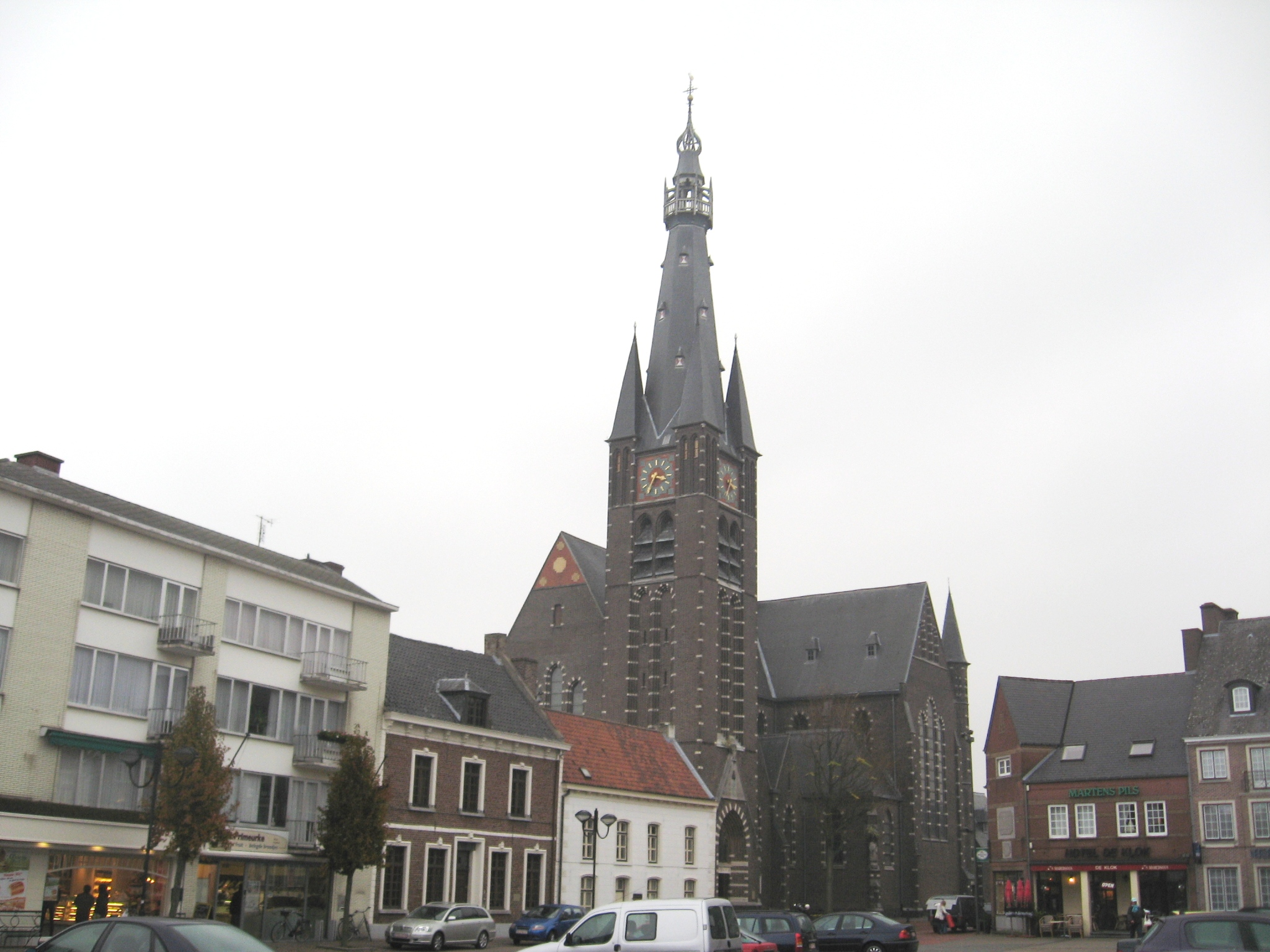 Church of Saint Lawrence in Hamont, Hamont-Achel, Limburg, Belgium